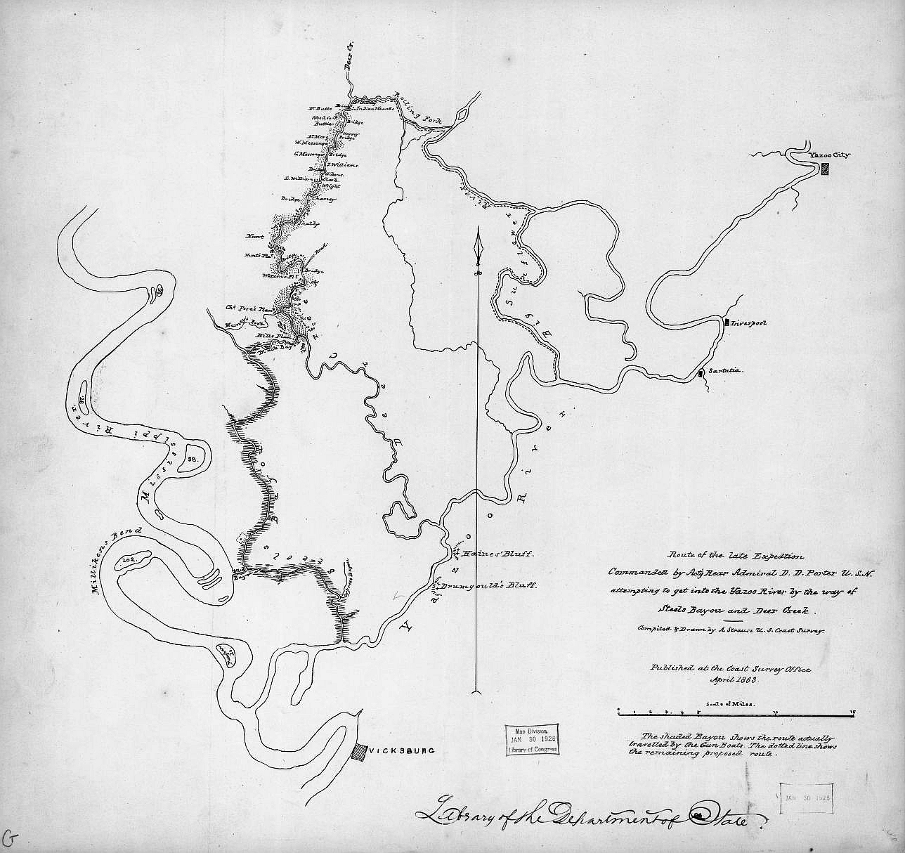 Indicates the location of bridges, Indian mounds, and names or residents along Deer Creek.